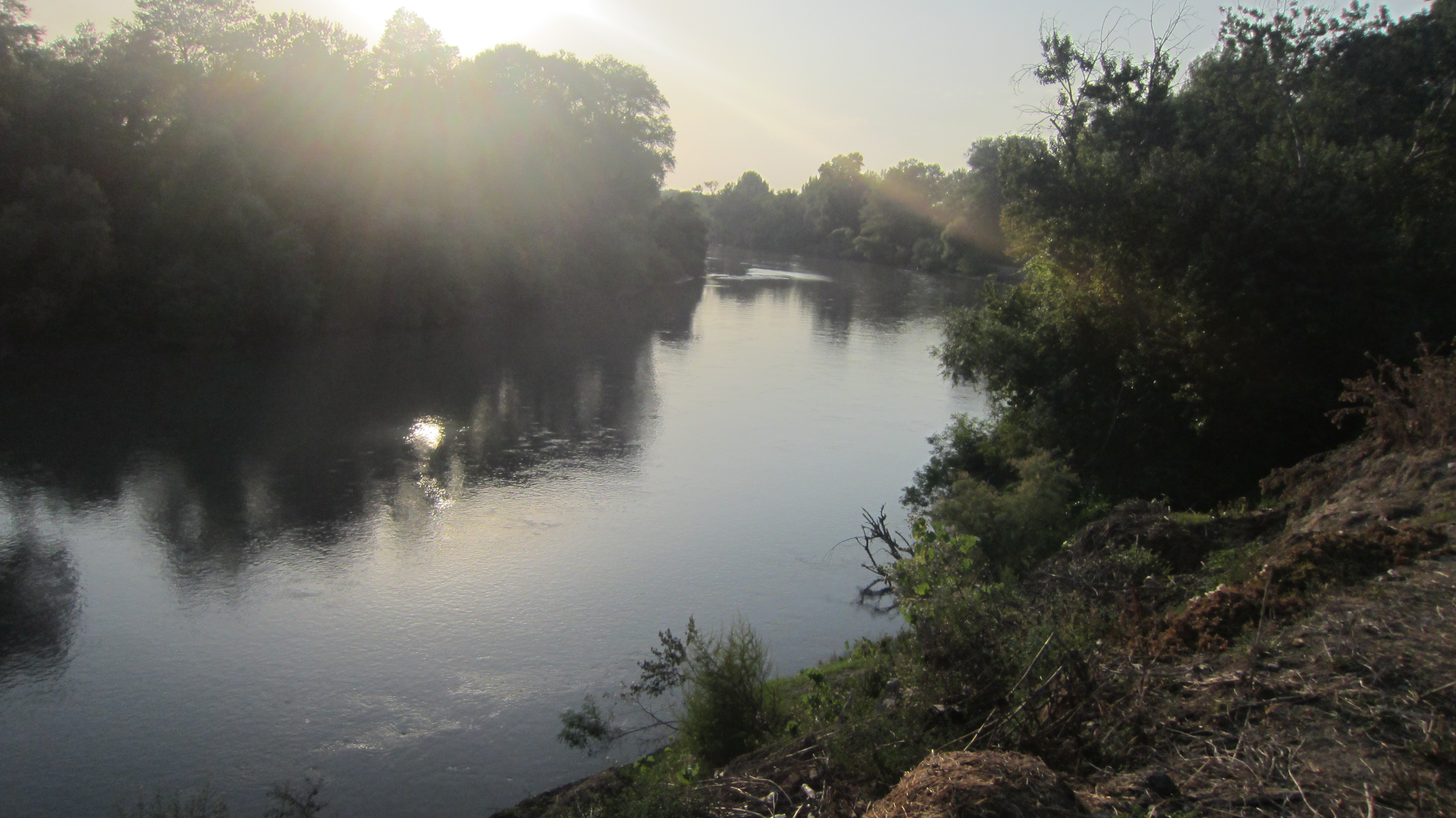 Qanix river in Qakh rayon, Lələli village